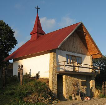 Unknown language: Jamna kaplica